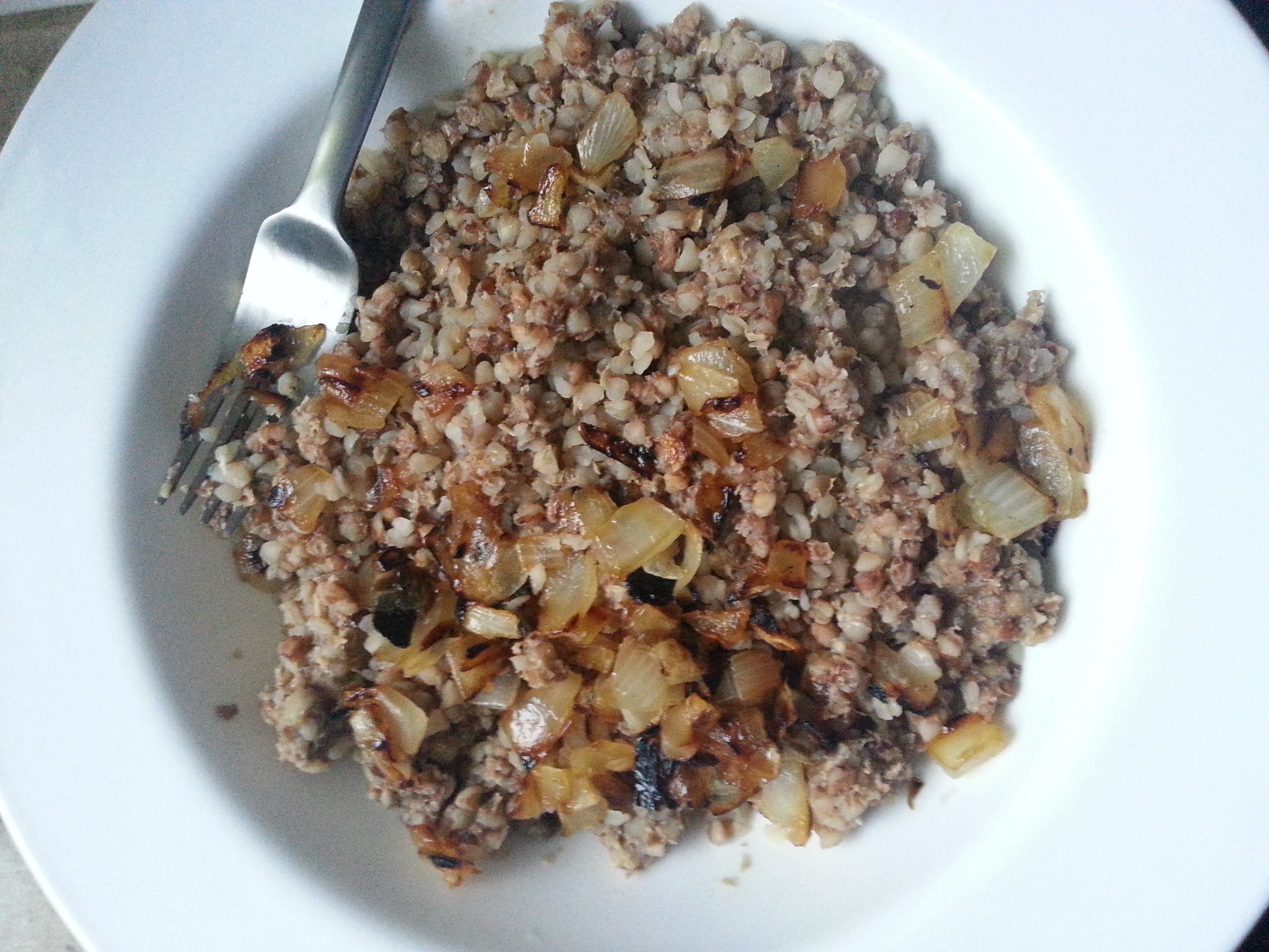 Cooked buckwheat with onions